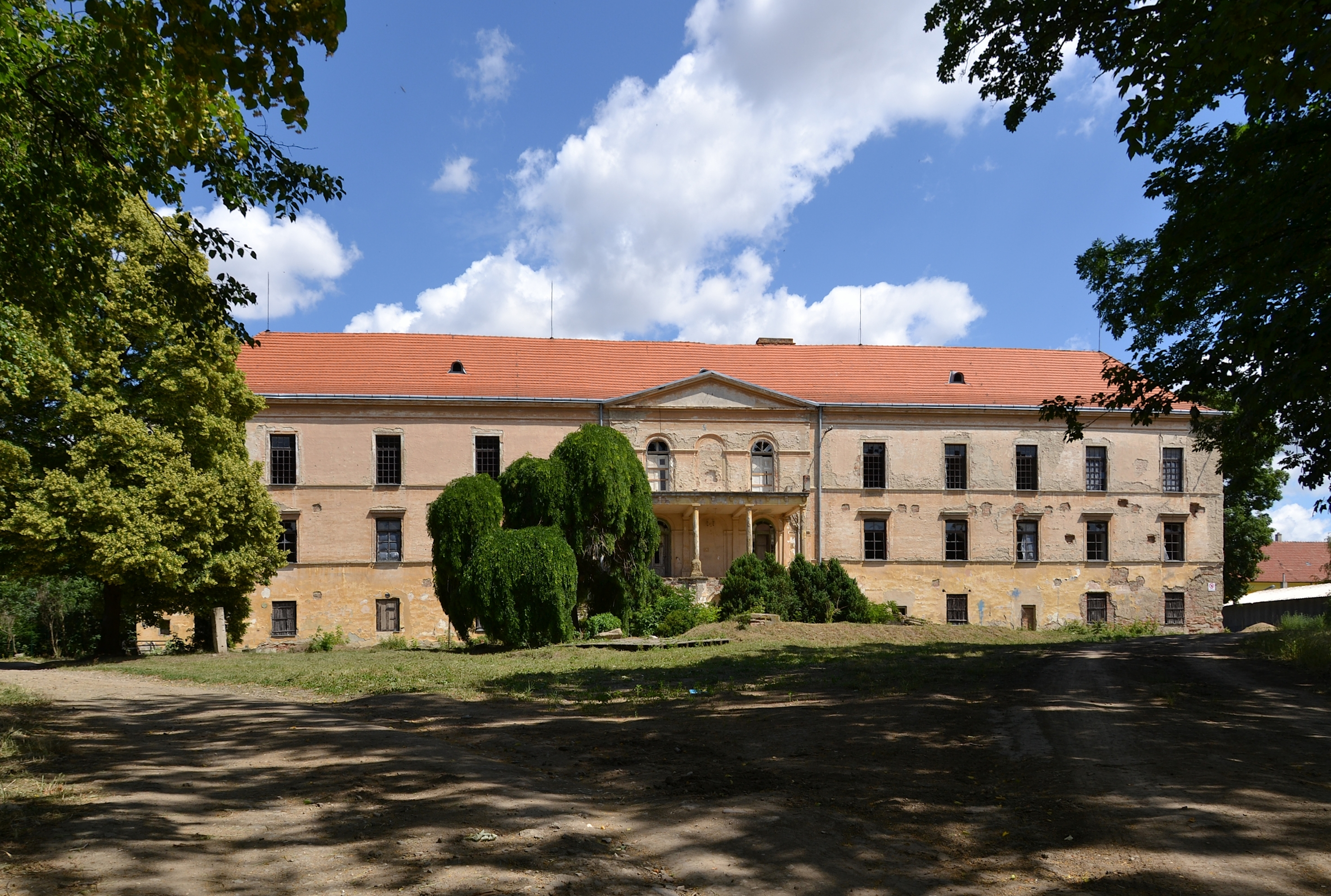 Castle in Hrušovany nad Jevišovkou (Grußbach), Moravia